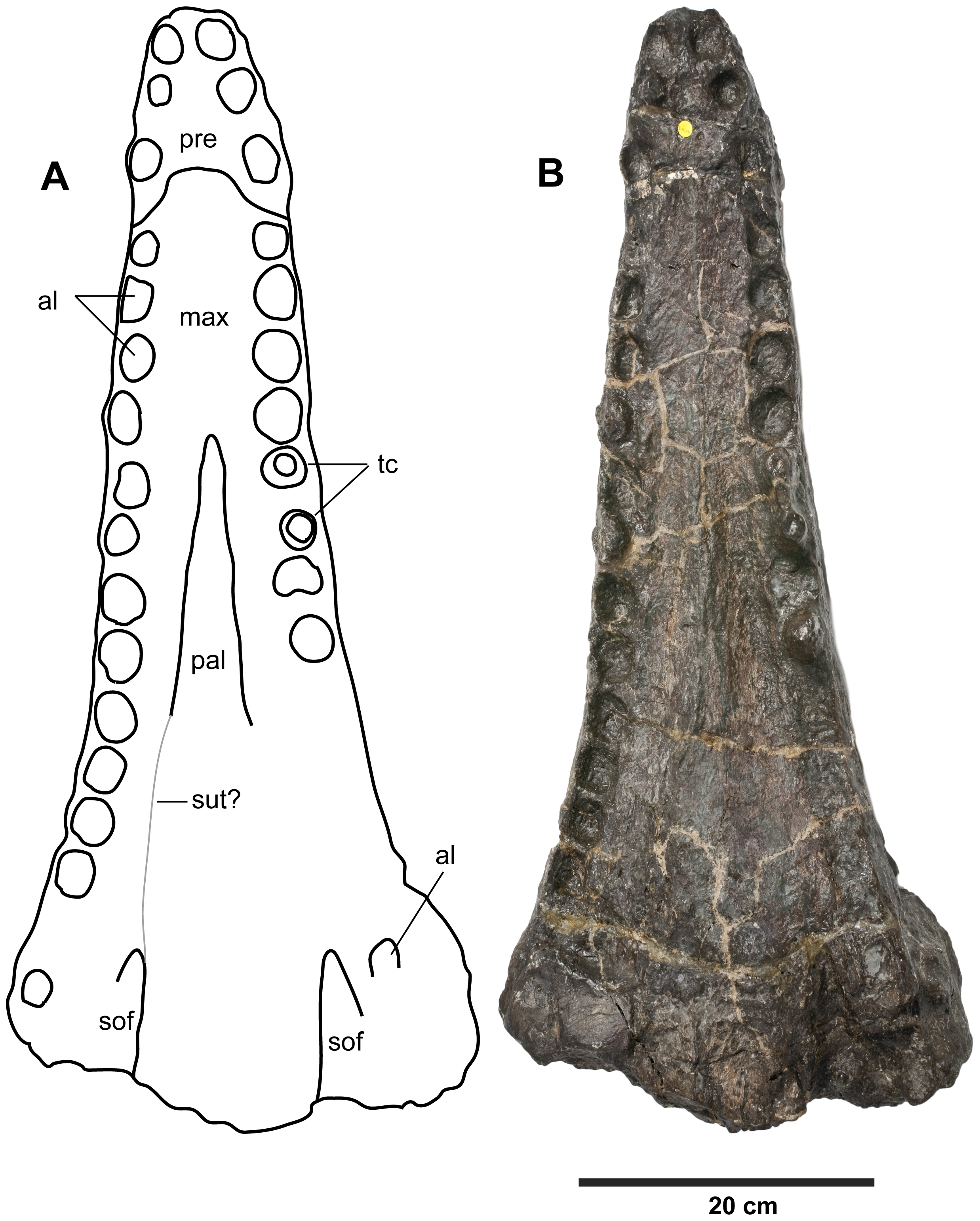 Plesiosuchus manselii, holotype NHMUK PV OR40103. Snout in ventral (palatal) view, (A) line drawing (grey lines represent the sutures we are unsure of) and (B) photograph. Abbreviations: al, alveolus; max, maxilla; pal, palatine; pre, premaxilla; sof, suborbital fenestra; sut?, suture?; tc, tooth crown.